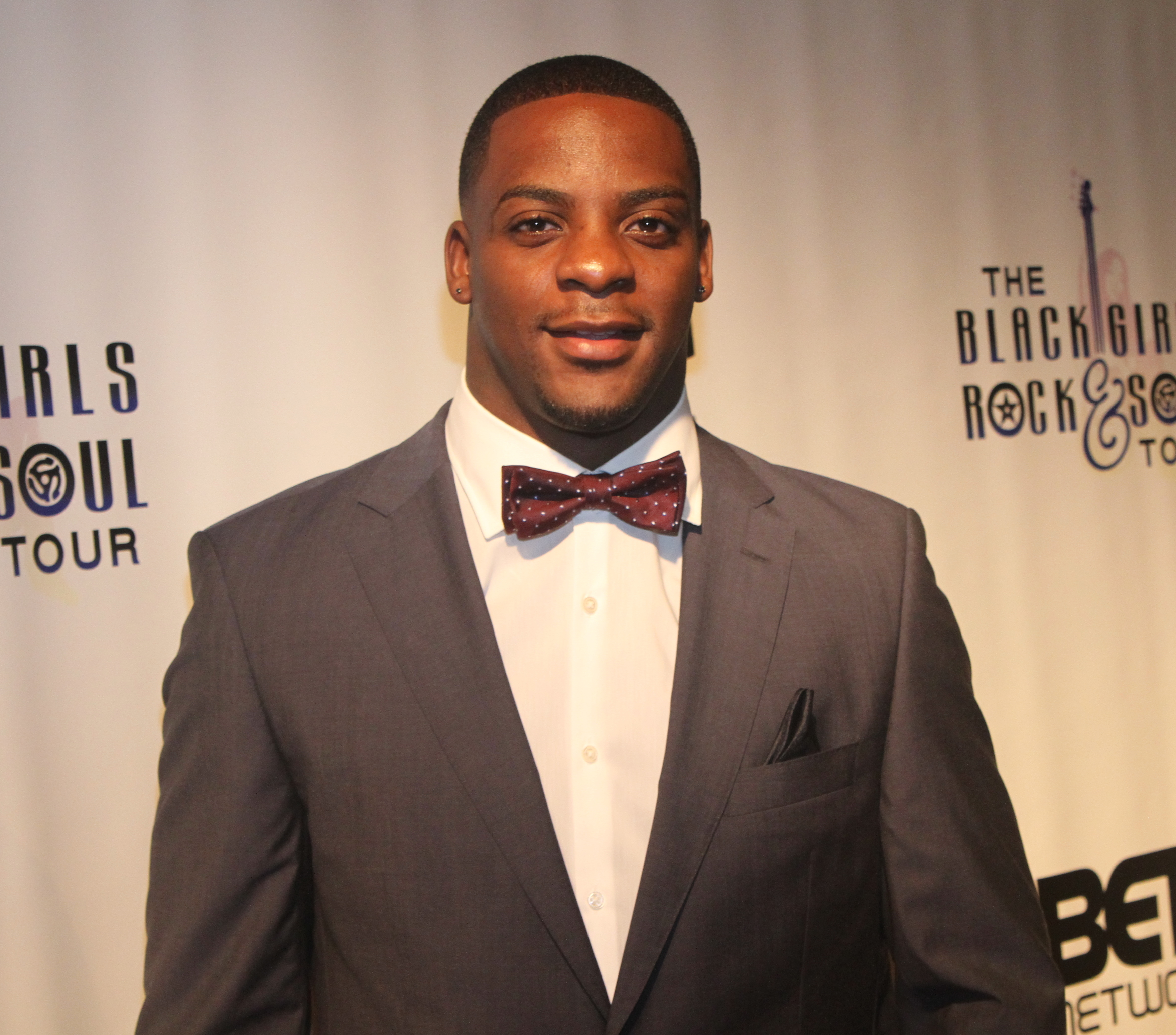 NFL running back, Clinton Portis, at the Black Girls Rock & Soul Tour September 22, 2011